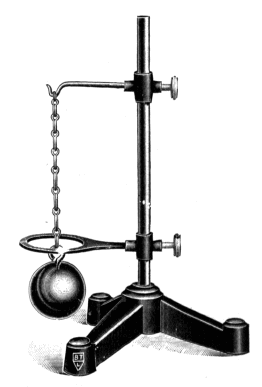 Ring and ball apparatus in a 1912 scientific instrument catalog for performing Gravesande's experiment, a simple experiment demonstrating thermal expansion used in physics education from the 1800s. It consists of a small metal ball suspended by a chain from a stand, with a metal ring below it. The ring is made just big enough so when both pieces are at the same temperature, the ball fits through the ring. However, when the ball is heated by dipping it in boiling water, or playing a spirit lamp flame over it, the metal expands and it can no longer fit through the ring. When it has cooled down, it fits through the ring again. In this example, the ring and ball are made of brass, because it has a greater coefficient of expansion than iron.